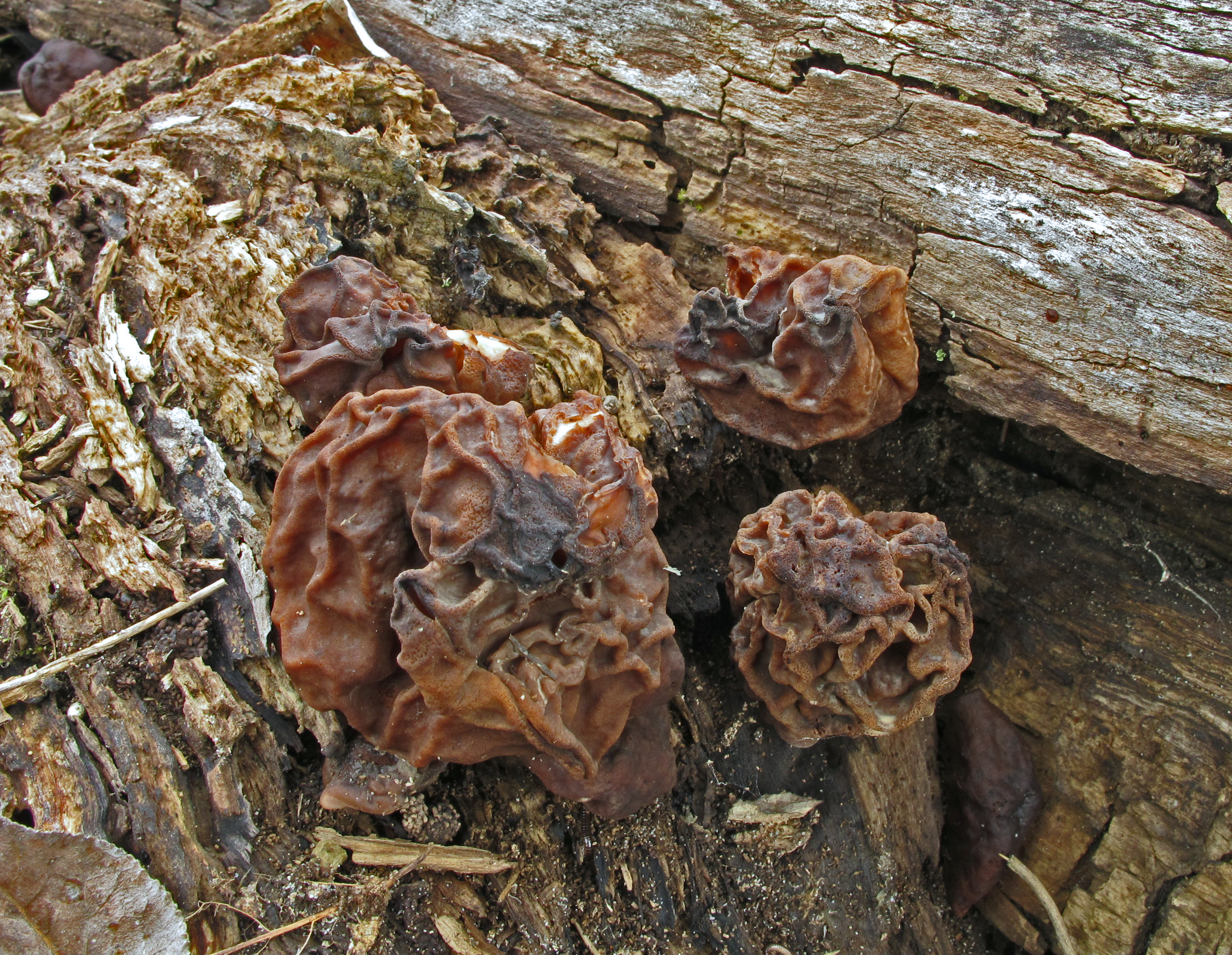 Gyromitra ambigua (P. Karst.) Harmaja Image location: Sauvie Island, Oregon, USA About a dozen, growing on the beach, on some logs that the river brought here. Could be G. infula too, but that’s supposed to be more lightly colored, without purplish tints. The spore size is the distinguisher; last year I collected one from the same place and it was ambigua (Observation 93285). My nomination for the least attractive large fungus. Recognized by sight For more information about this, see the observation page at Mushroom Observer.